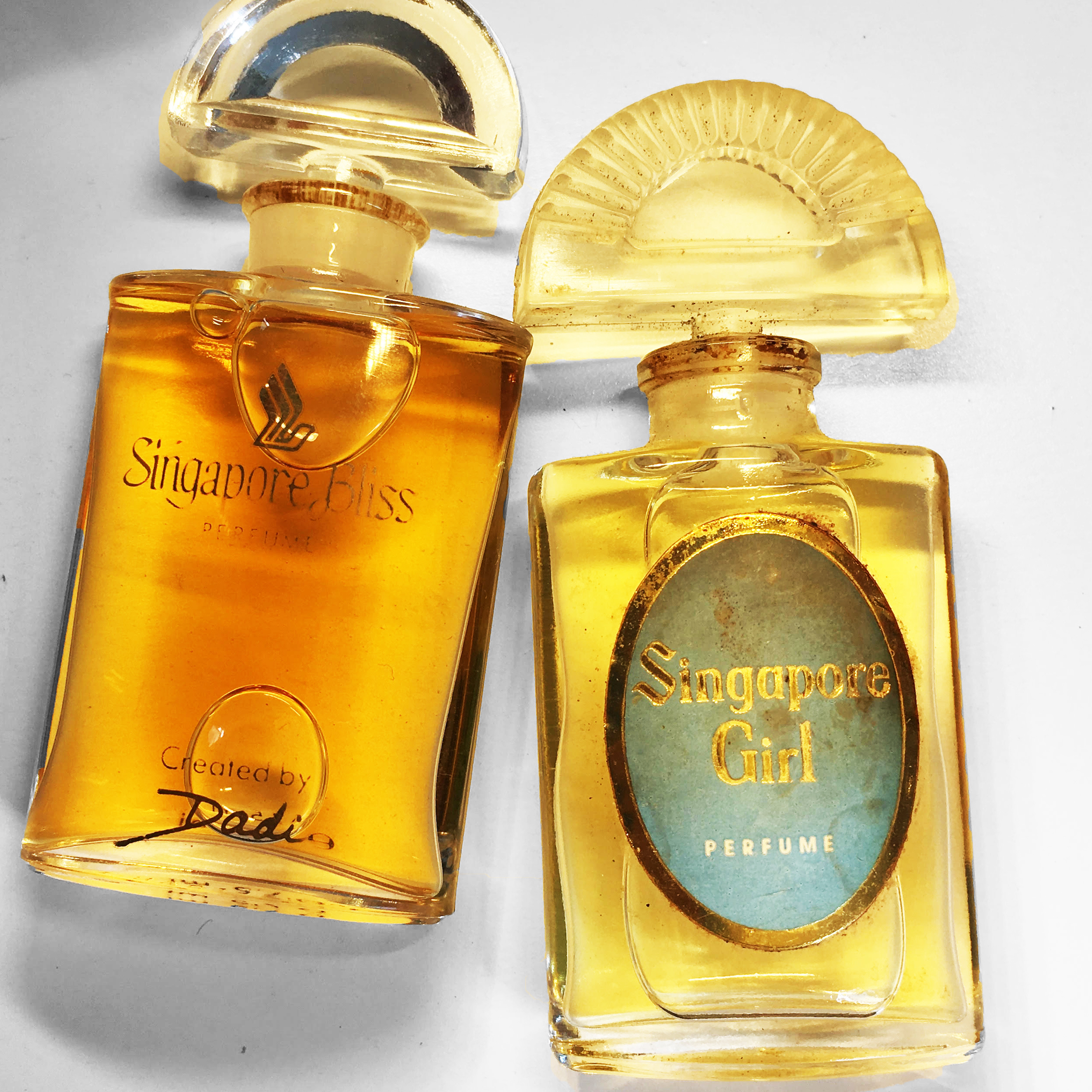 Singapore Girl and Singapore Bliss. Iconic perfumes by Dadi Group of companies. Perfume King of Asia